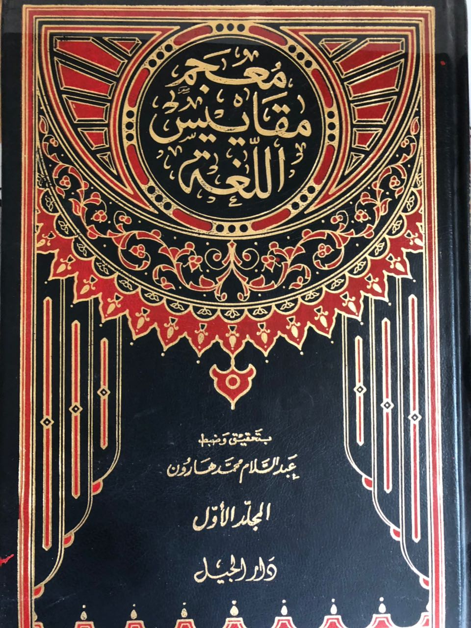 صورة الغلاف للمجلد الأول لكتاب معجم مقاييس اللغة لابن فارس ،بتحقيق عبدالسلام هارون ،نشر دار الجيل